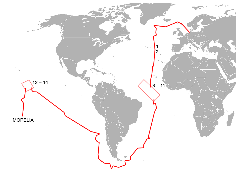 Approximate route and sinkings by the german auxiliary cruiser SMS Seeadler 1916/17 (borders from 1912).